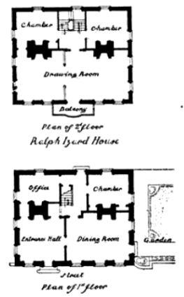 A floorplan of the first and second floors of the Ralph Izard House at 110 Broad St., Charleston, South Carolina.